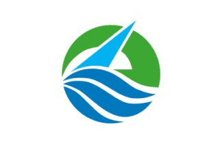 Flag of Kami Hyogo